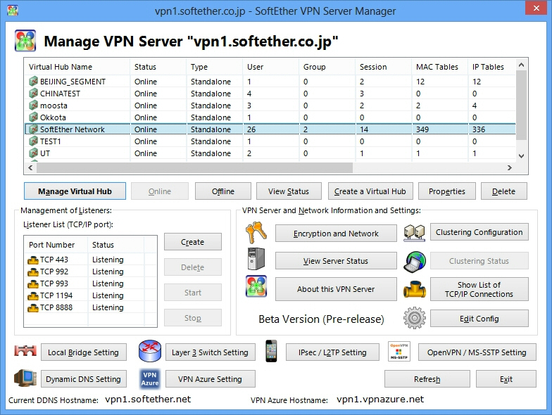 SoftEther VPN SS